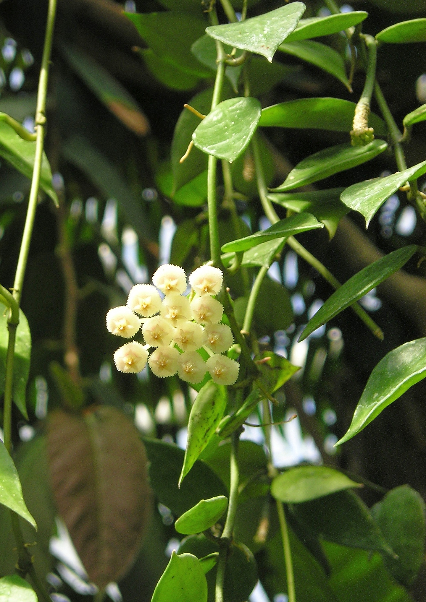 Wachsblume (Hoya lacunosa) Botanischer Garten TU Dresden, April 2009 Creative Commons Licence BY 2.0 Quellenangabe / Credit: Photo by Maja Dumat